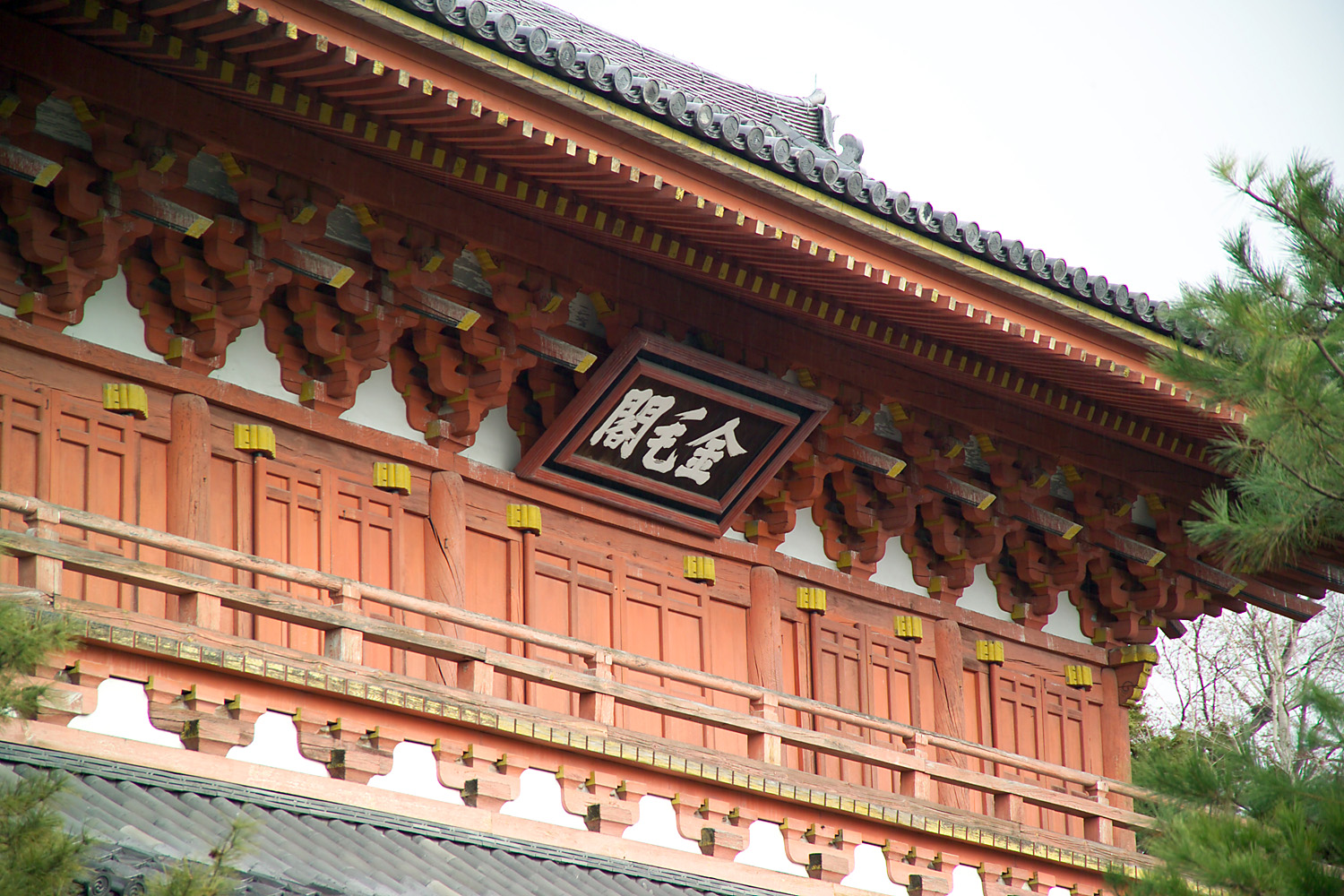 Gate of Daitokuji, an important Zen Buddhist temple in Kyoto, Japan. The tea master Sen no Rikyu completed the gate, and later committed suicide there. I took this photo and contribute my rights in the file to the public domain; individuals and organizations retain rights to images in it.